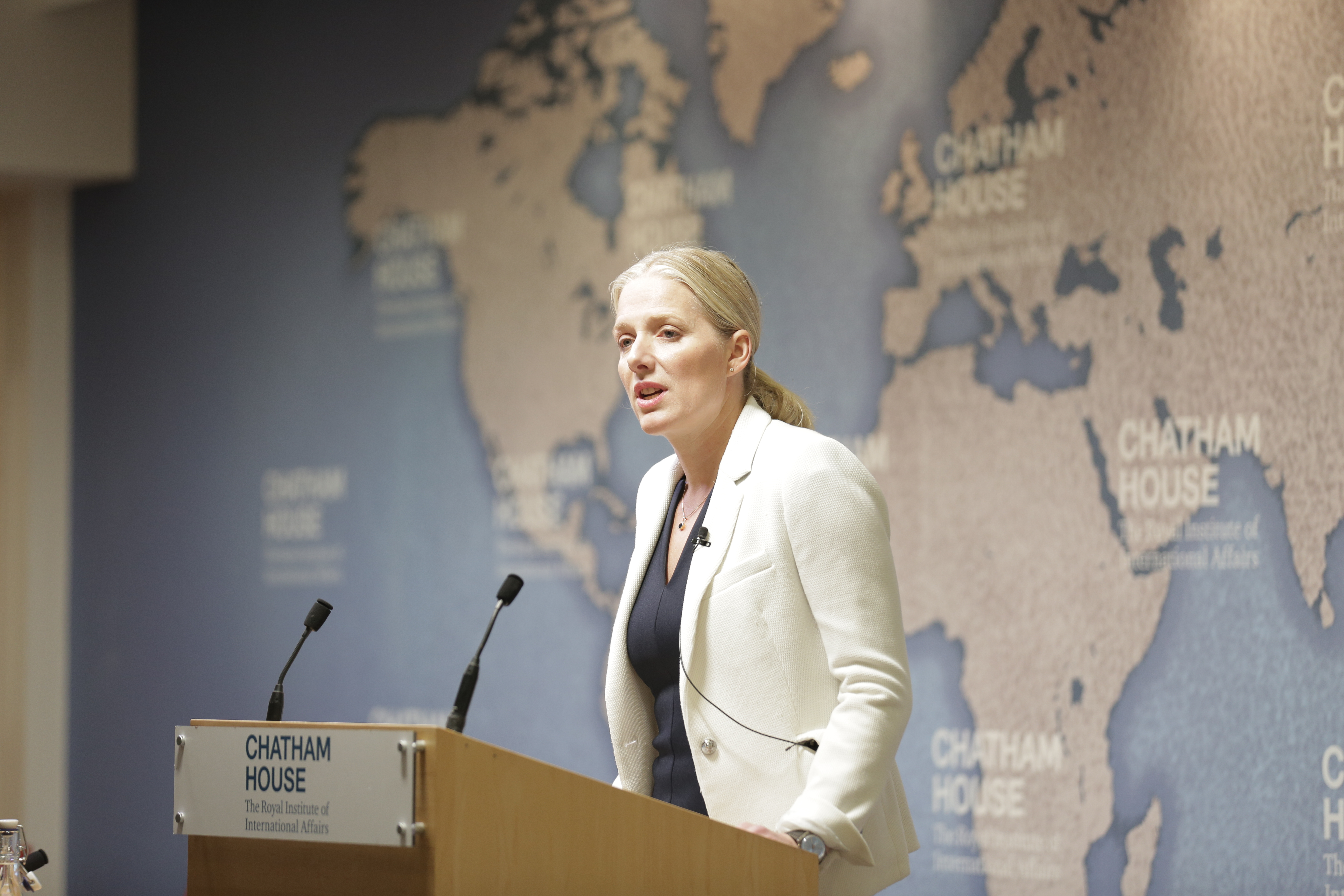 Catherine McKenna MP, Minister of Environment and Climate Change, Canada at Climate Change 2017 //